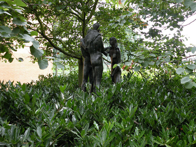 The Swimmers